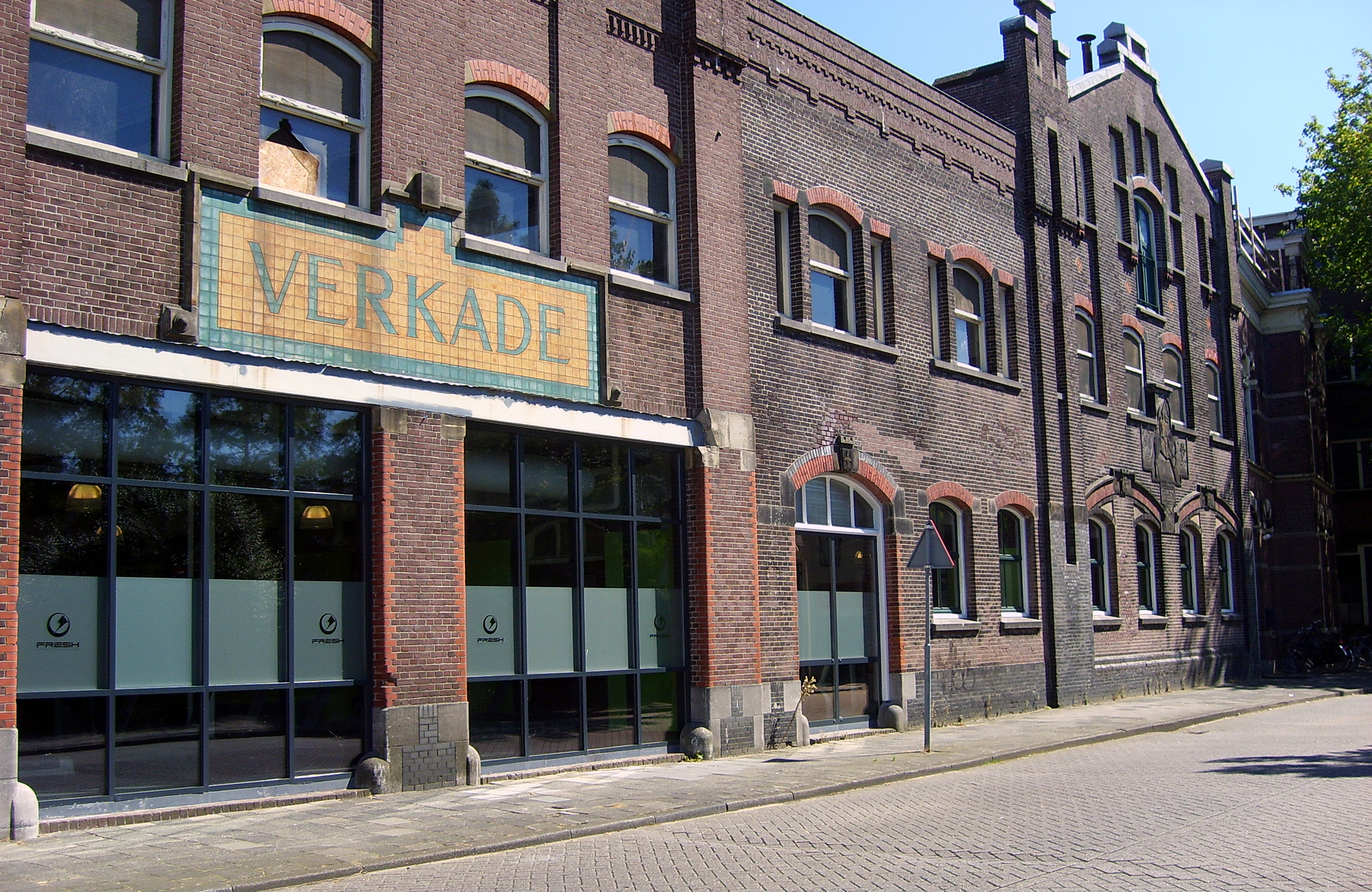 A formerly factory of Verkade in Zaandam.